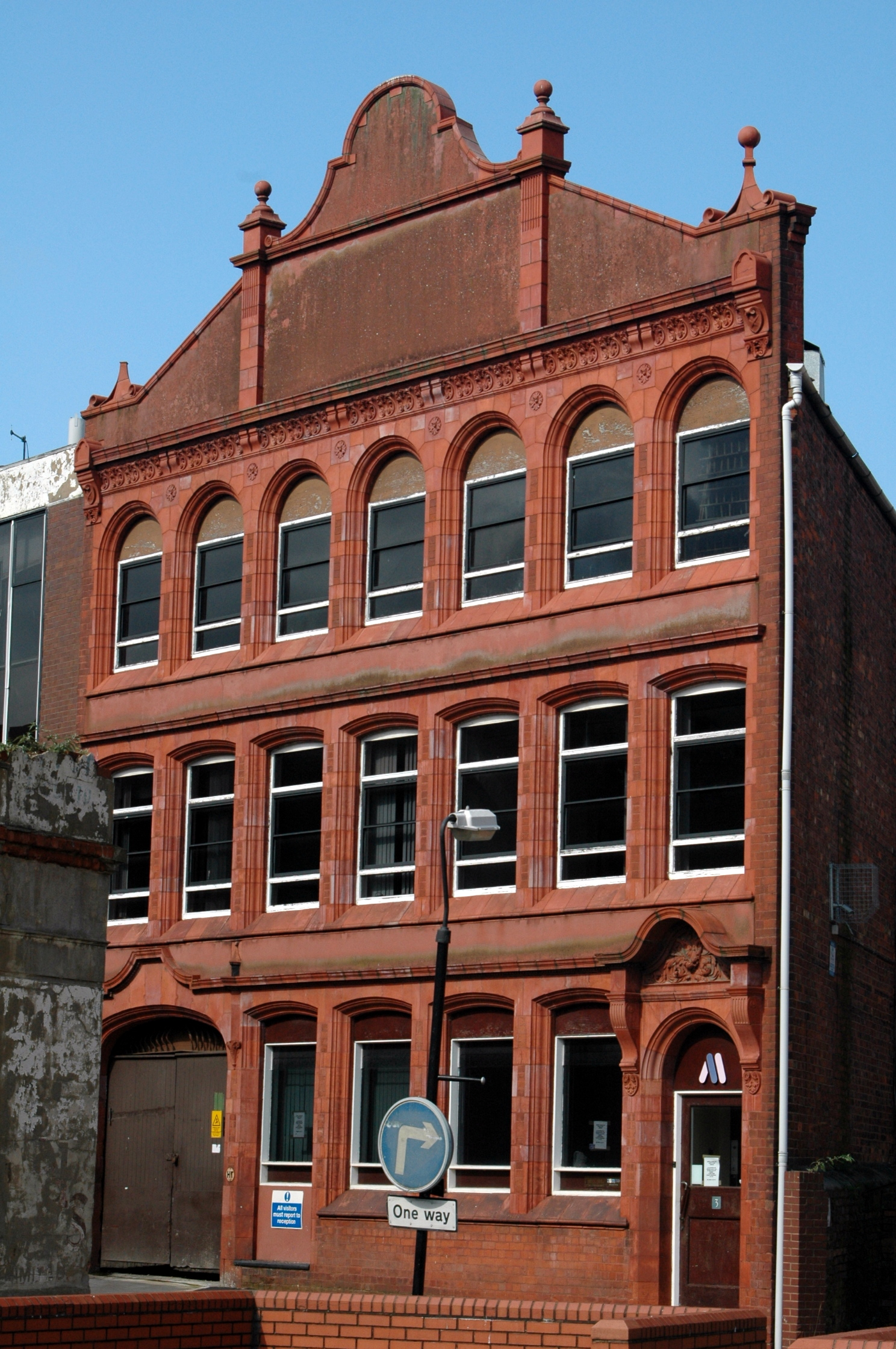 A pencil case works built in 1893 to a design by Essex, Nicol & Goodman. Located on Legge Lane in the Jewellery Quarter of Birmingham.